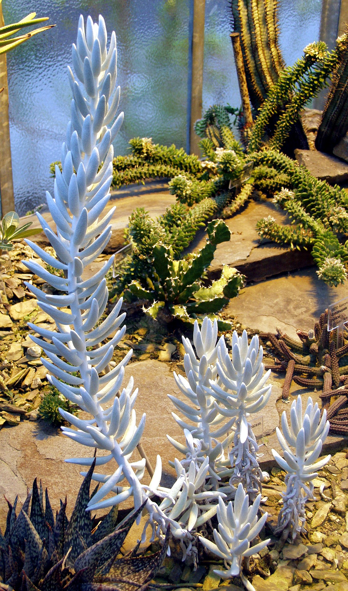 Senecio haworthii at Botanischer Garten Bonn